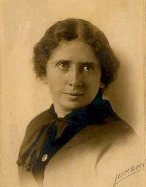 Pre-1916 photo of American social activist Rose Schneidermann.